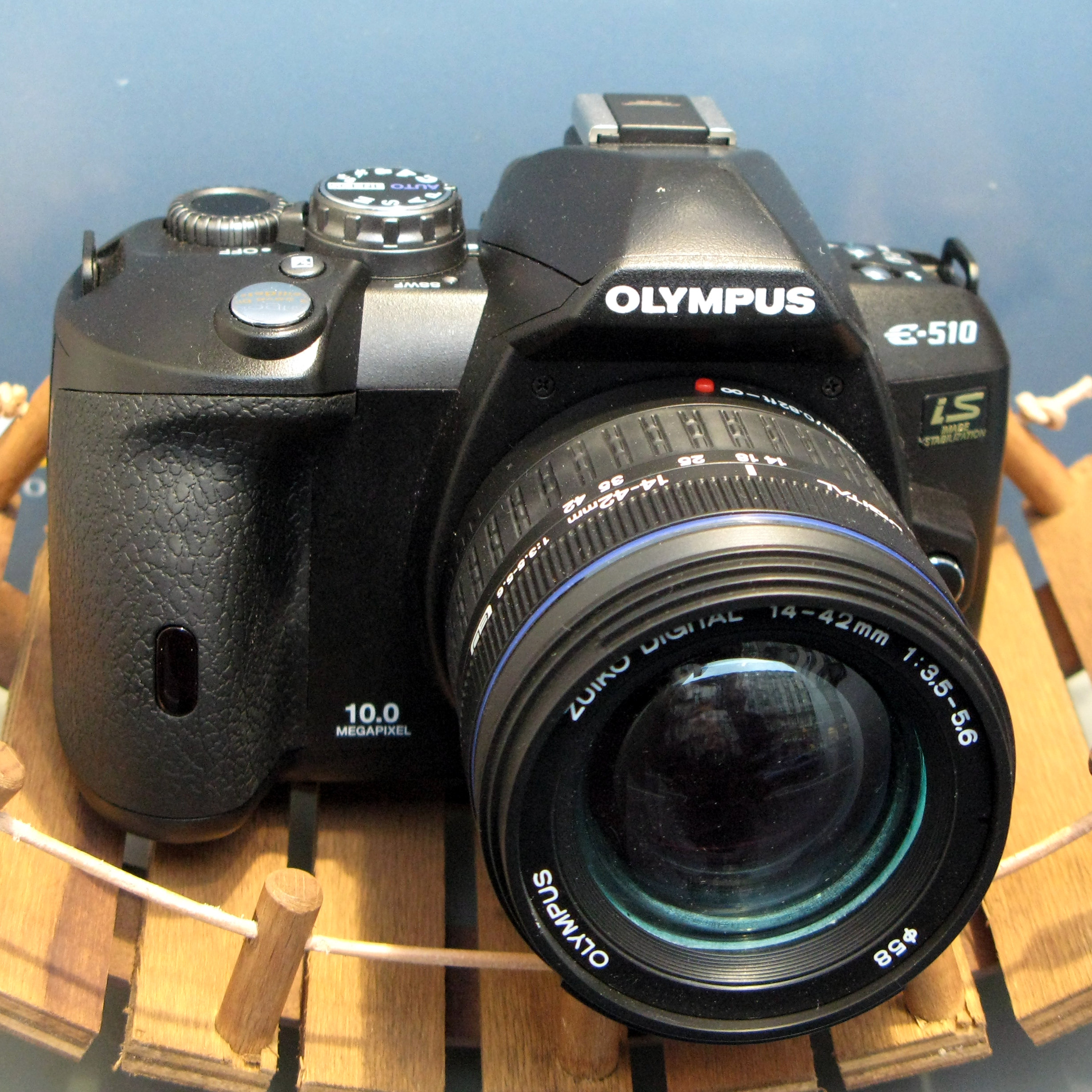 Olympus E-510